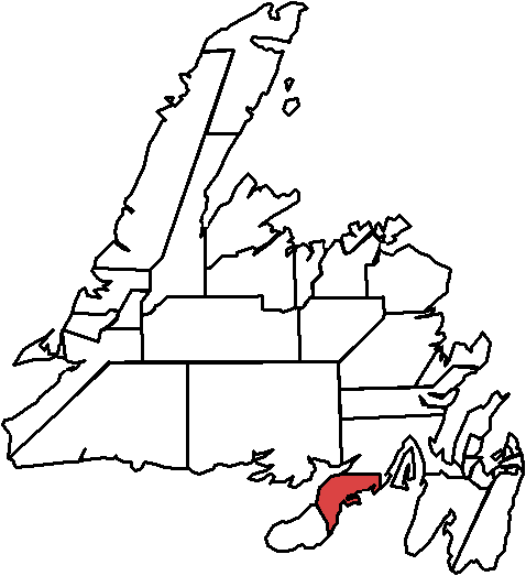 Map based on work by Earl Andrew, from maps used in 2007 elections Map based on work by Earl Andrew, from maps used in 2007 elections